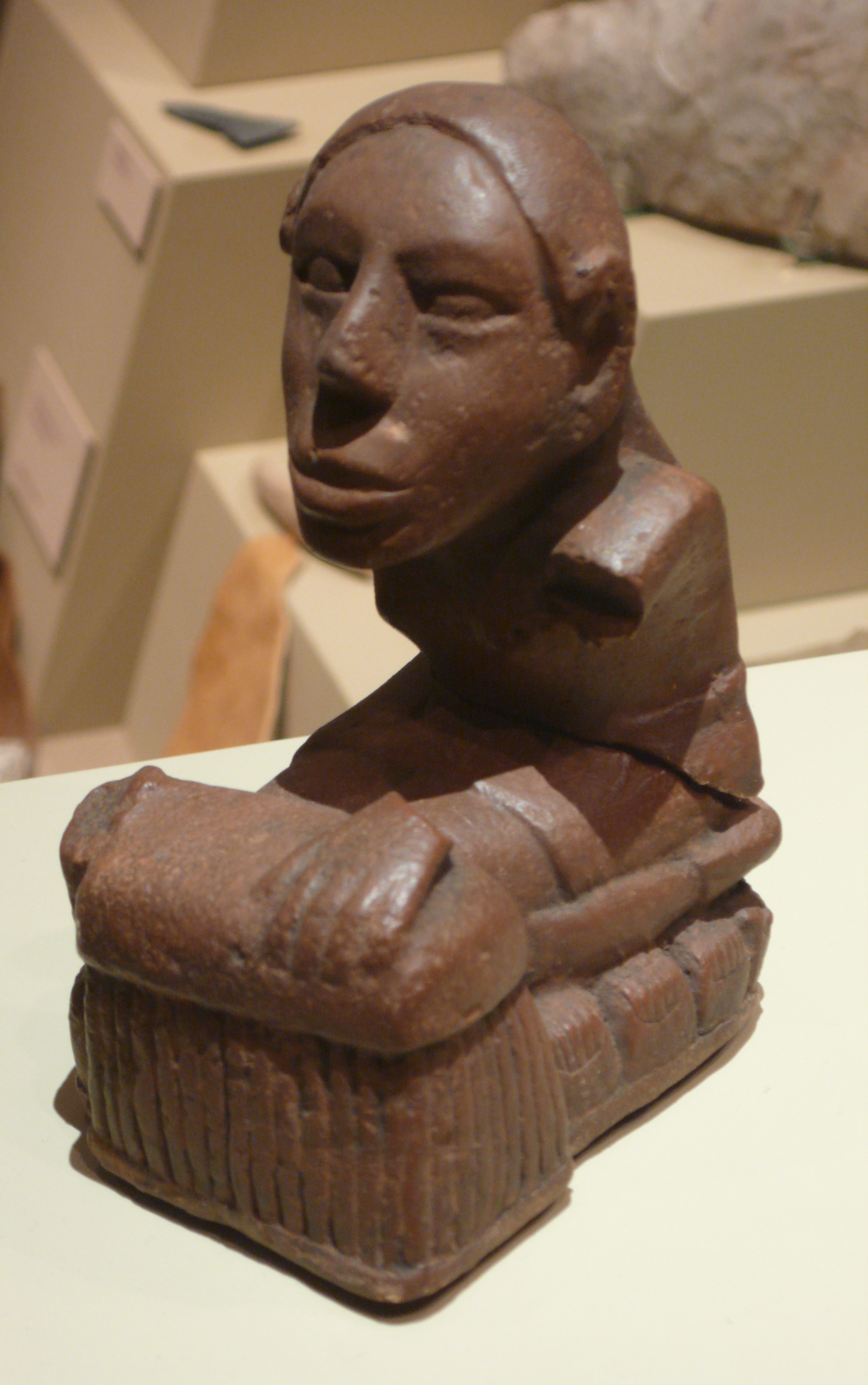 Pre-Colombian art, from Cahokia Mounds site